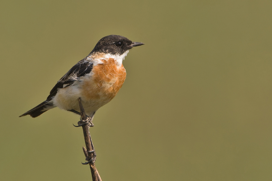 White-throated Bushchat : Saxicola insignis Photograph by Subramanya CK at Jim Corbett NP, 2010. Contact